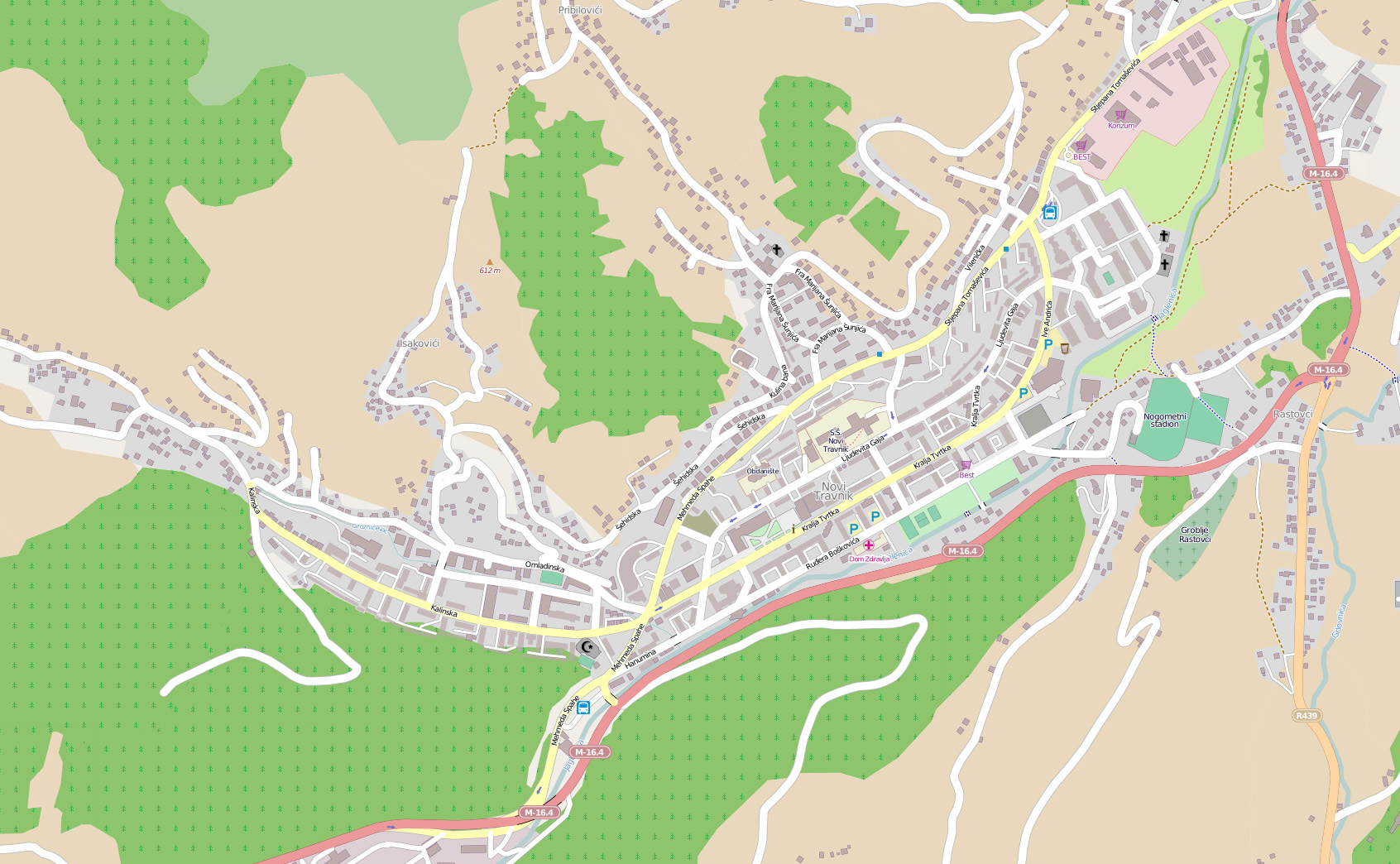 OpenStreetMap map of Novi Travnik, Bosnia and Herzegovina